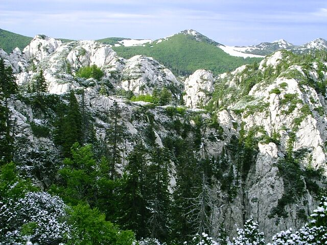 Velebit Mountains, Croatia